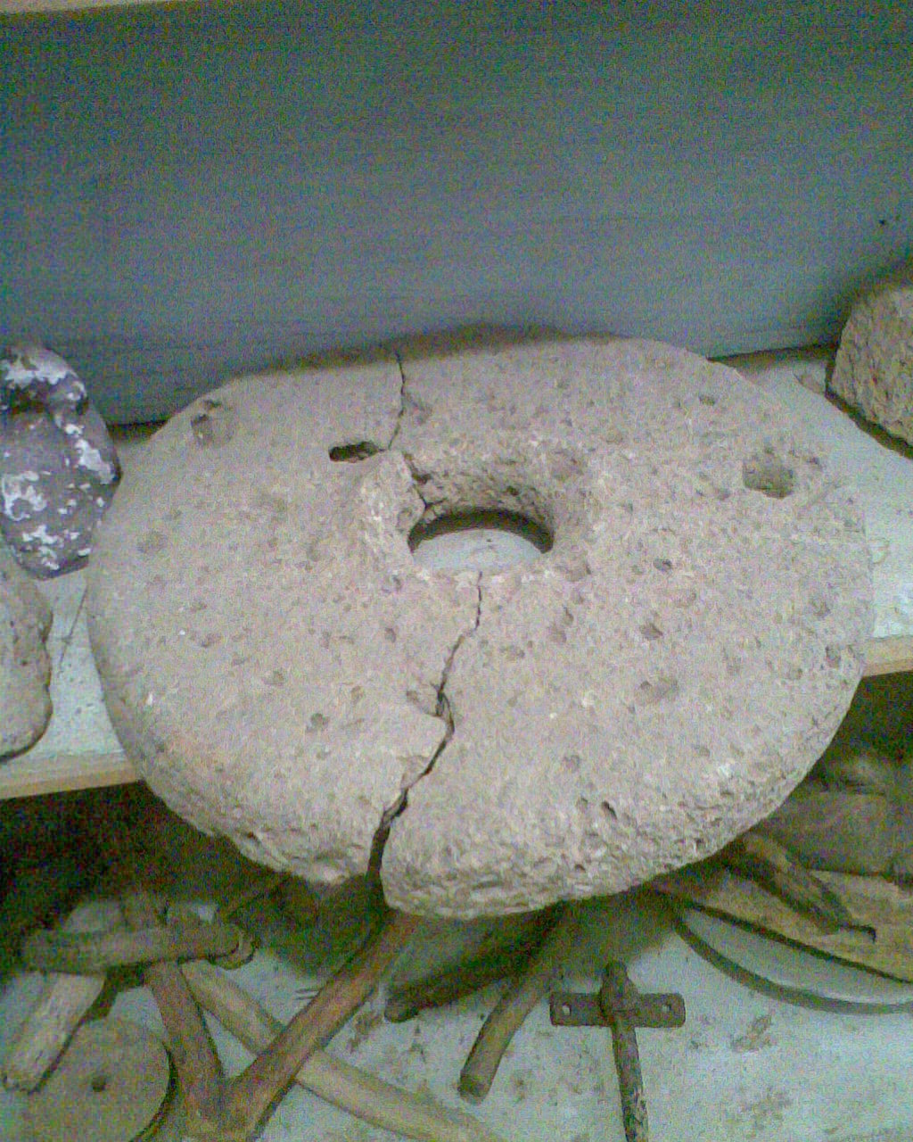 One of two parts of "Raha" (mill), a tool for crushing grain.